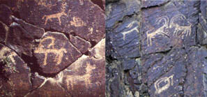 Photographs of Mongolian cave paintings, taken from the archives of the National University of Mongolia